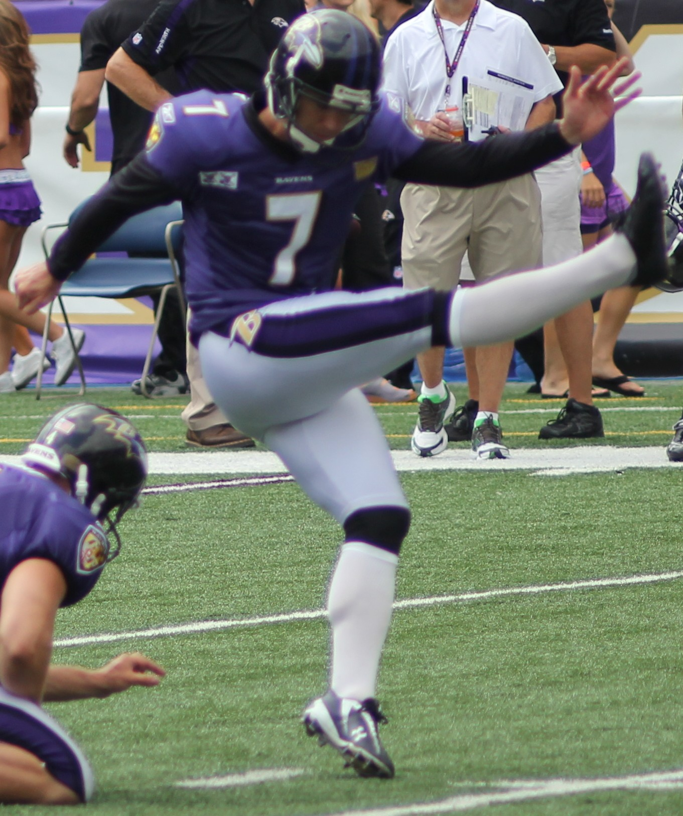 Billy Cundiff Practice at M&T Bank Stadium August 2011